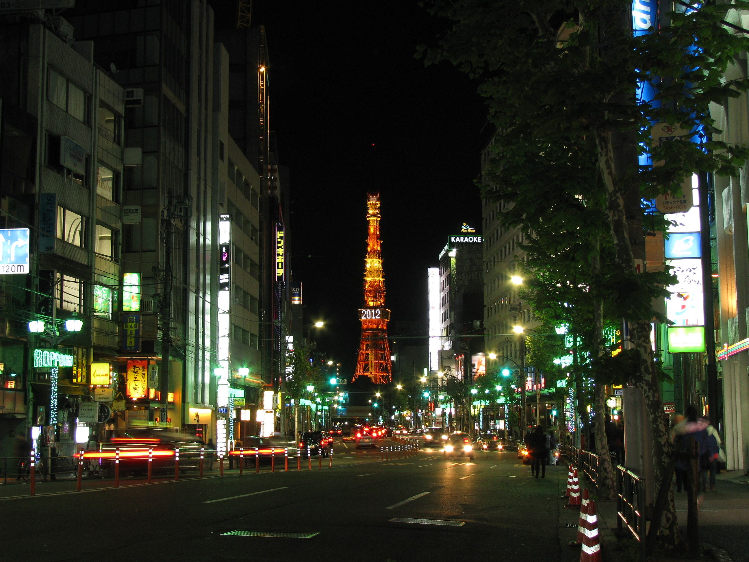 The Tokyo Tower is a communications tower. This location is from a Tokyo Prefectural Route 319 in Roppongi, Minato, Tokyo, Japan.